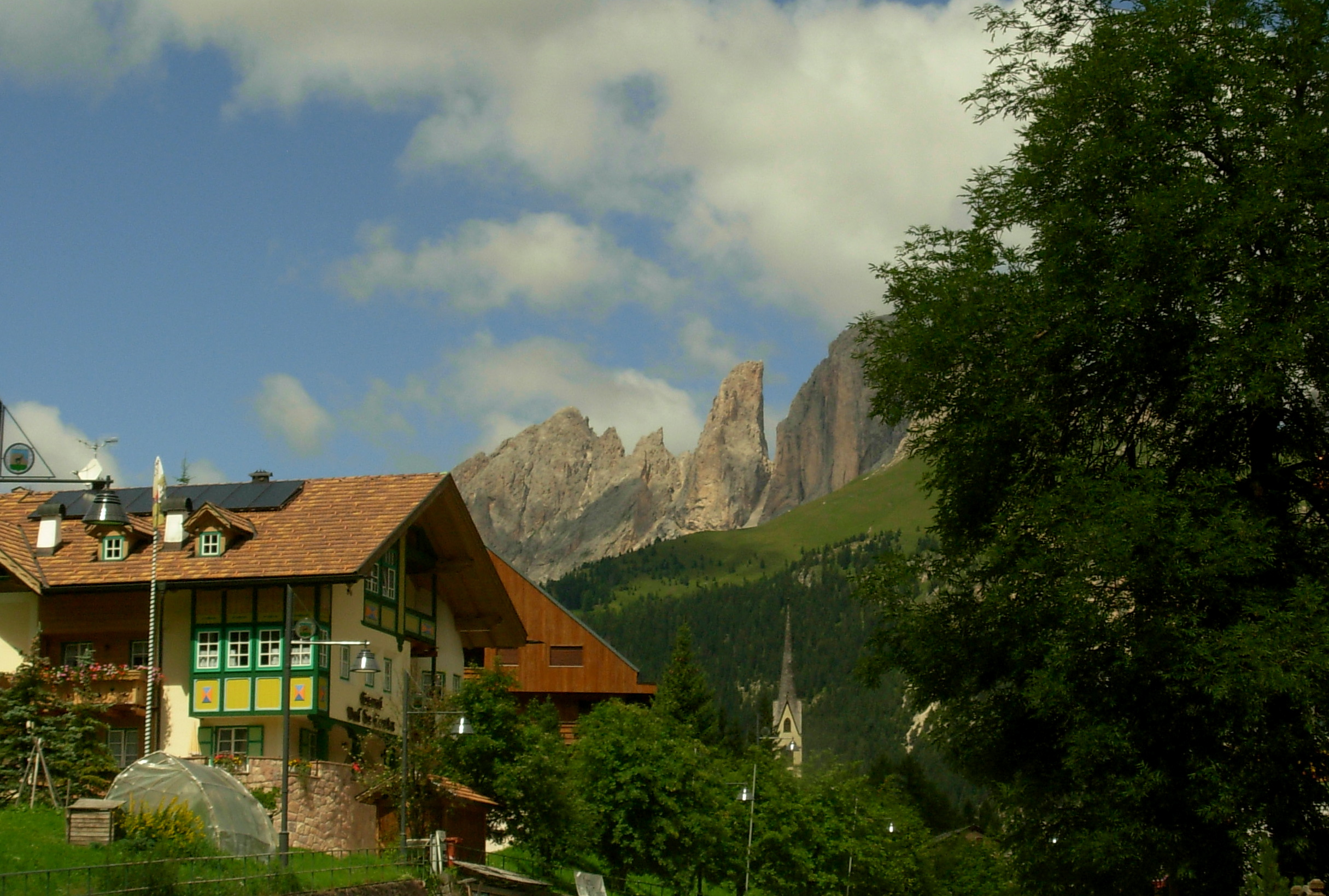 Moena. Fassatal